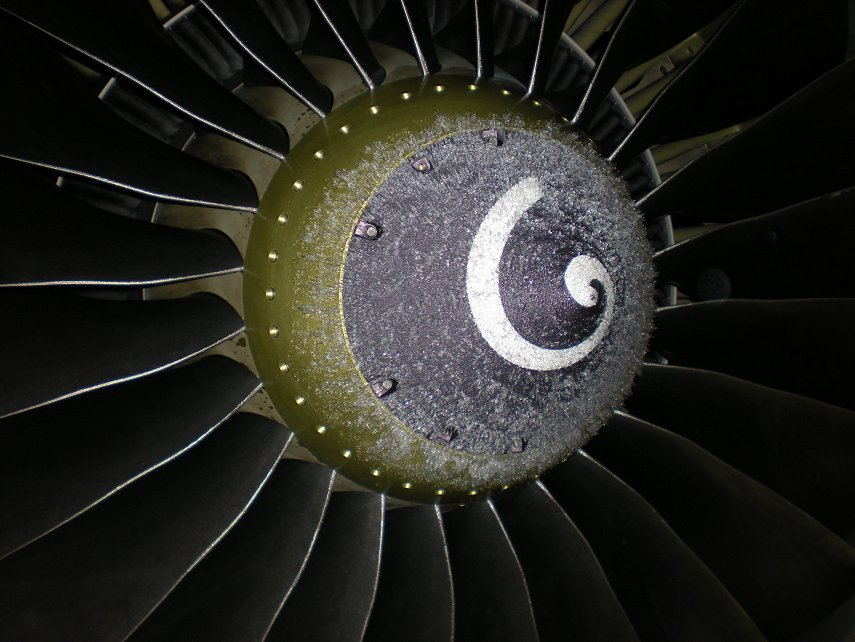 Ice formed on the nose cone of a CFM-56 bypass engine during an approach in freezing fog.